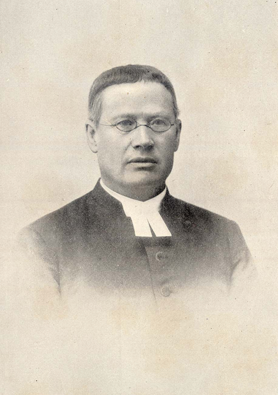 Swedish theological author A. Gustaf Mattsson (1843-1906)Place: Probably Mora, Sweden